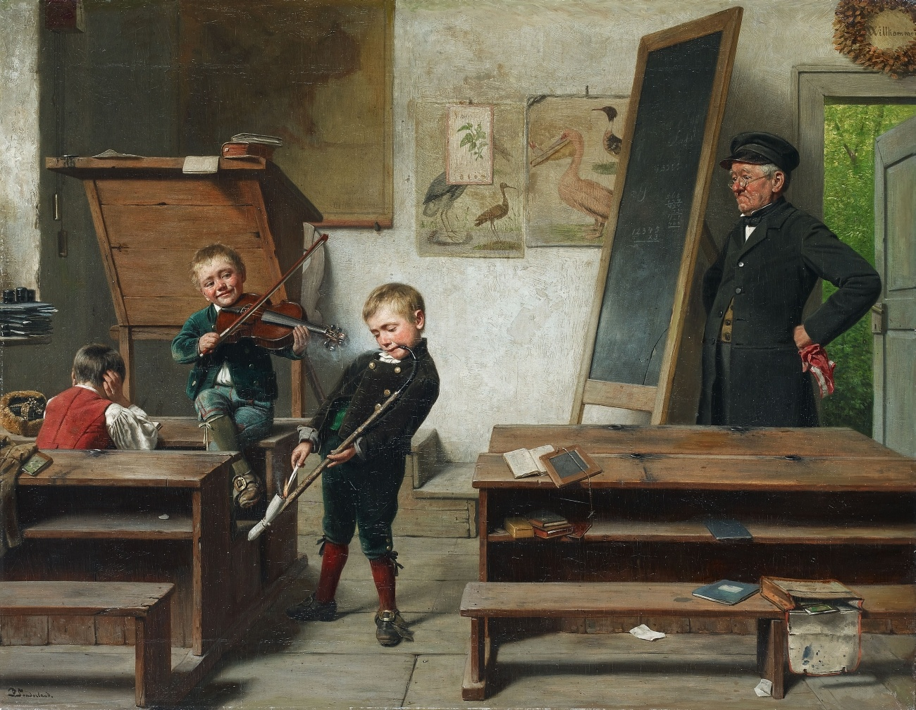 The merry detention